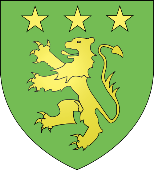 Coat of arms of the O'More.